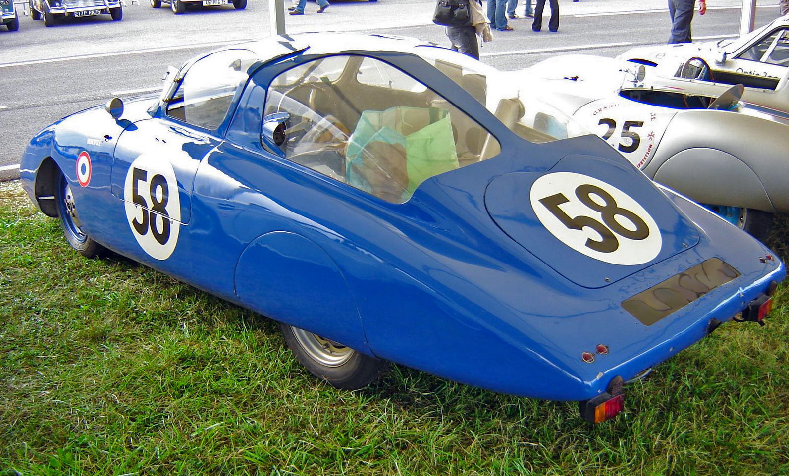 1956 Panhard-Monopole X86, seen at the Autodrome de Linas-Montlhéry, 2009